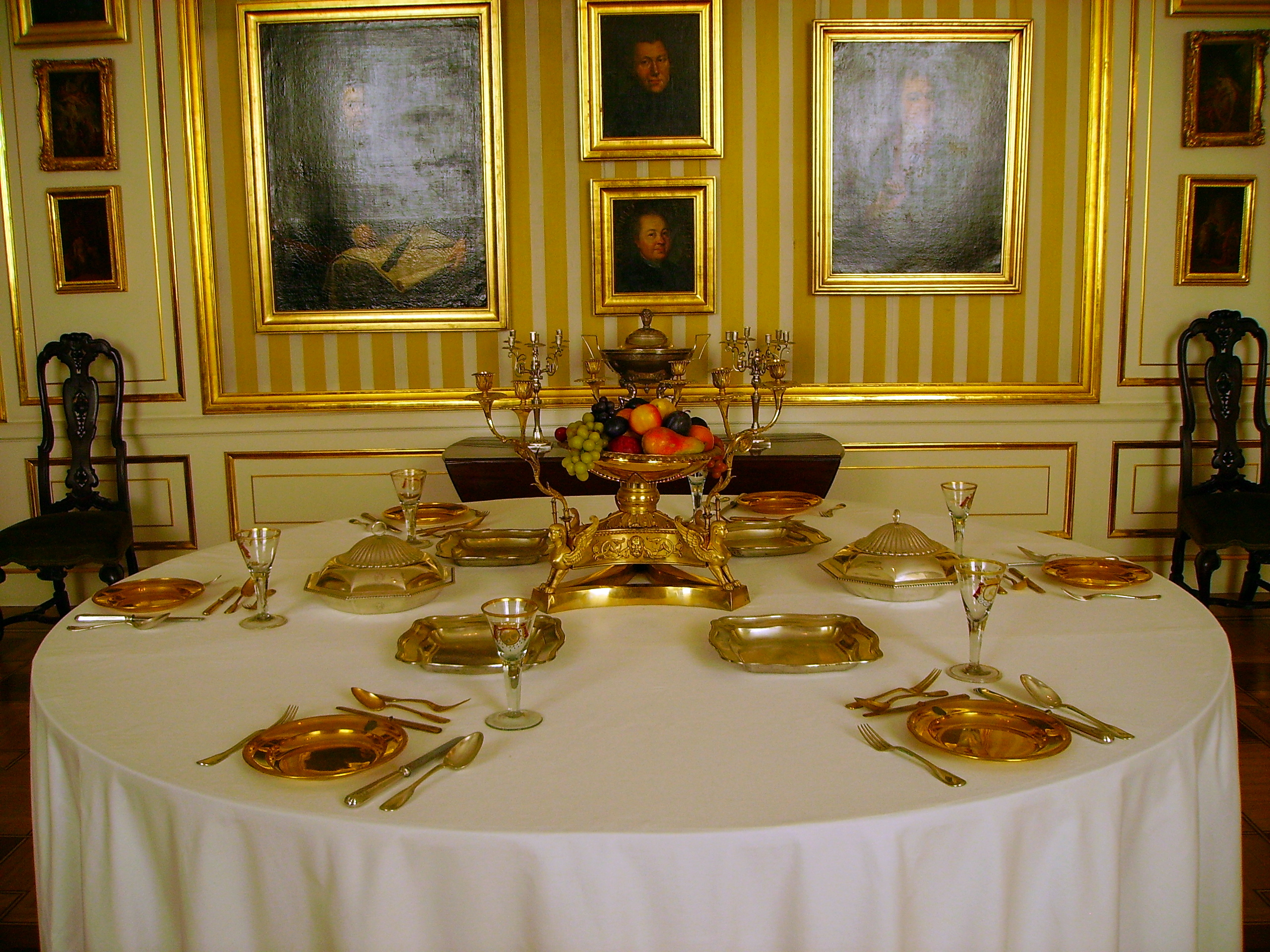 Gate-leg table, mahogany, England, 1750 On the table: - Centerpiece, silver gift, master PC, London, 1801-1802 - Four bowls, silver, Teodor Pawlowicz, Warsaw, 1784-94; The Ciechanowiecki Foundation Collection - Pair of bowls with covers, silver, Teodor Pawlowicz, Warsaw, 1789 - Six dessert plates, gilded brass, silver, XIX century, The Ciechanowiecki Foundation Collection - Six spoons, knives and forks, silver, Paris, 1819-1838; The Ciechanowiecki Foundation Collection - Six spoons, knives and forks, gilded brass, XIX century; The Ciechanowiecki Foundation Collection - Six goblets, glass, Poland (?),, c. 1800, The Ciechanowiecki Foundation Collection - Eight-lights chandelier, Central Europe, c. 1750; bequeated by Tadeusz Wierzejski